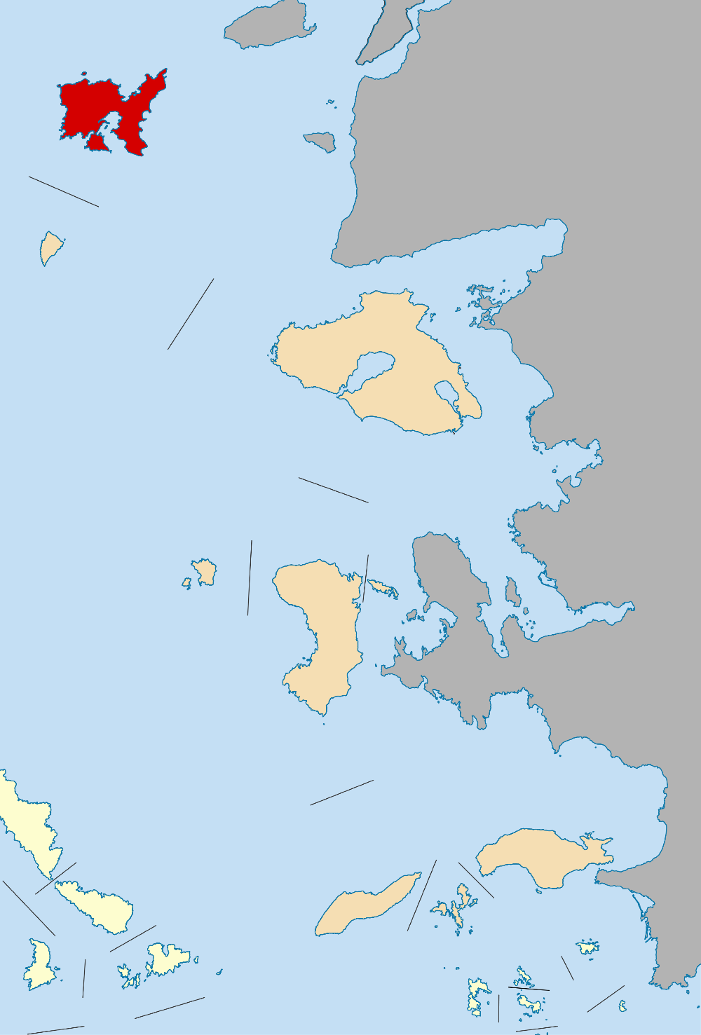 Locator map for Limnos municipality in Greek region North Aegean (2011)